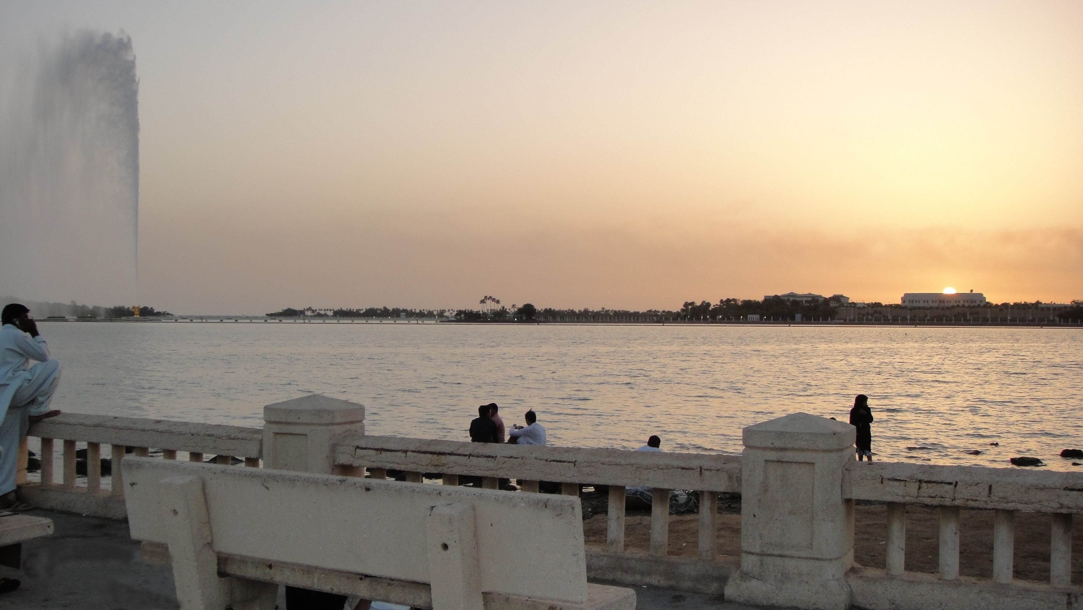 Sunset view King Fahd's Fountain in Jeddah.